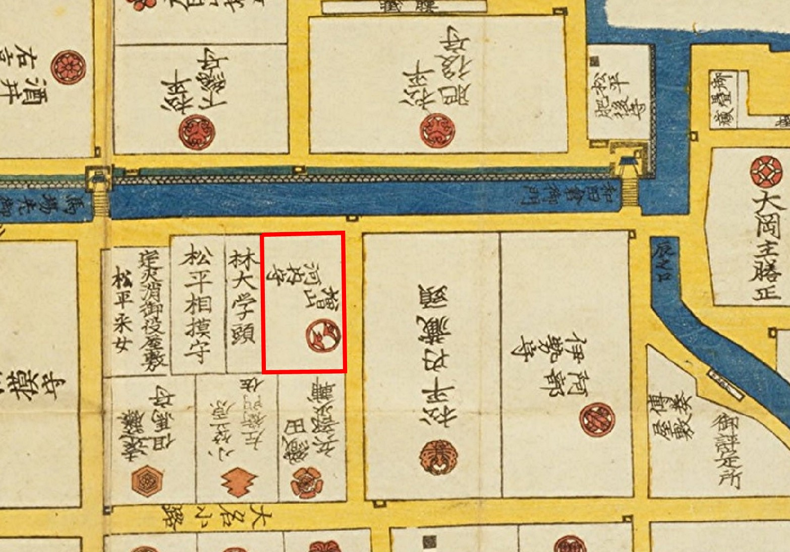 Residence of Mashiyama (sometimes misread as Masuyama) clan at Edo